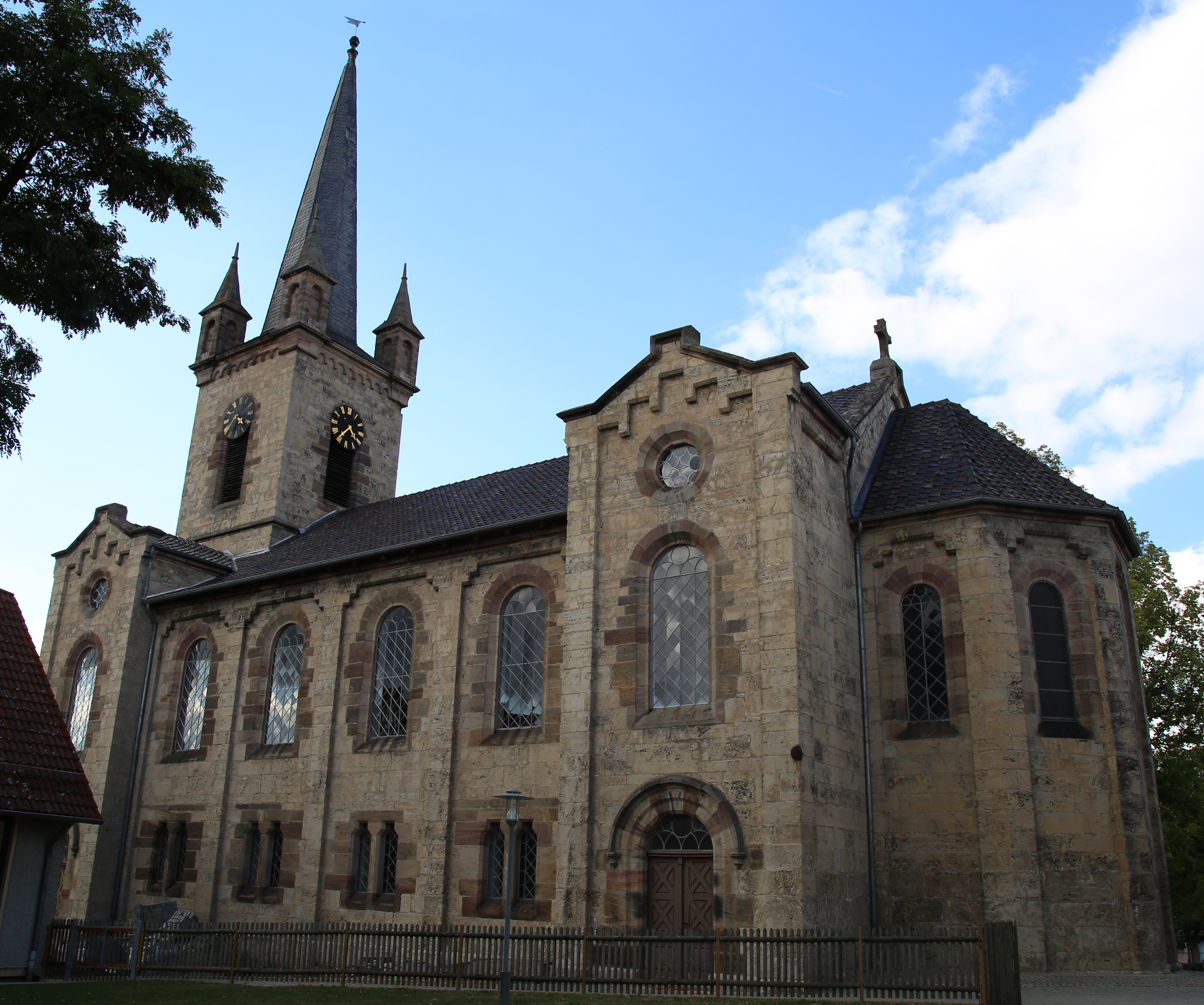 Evangelical Church Abterode